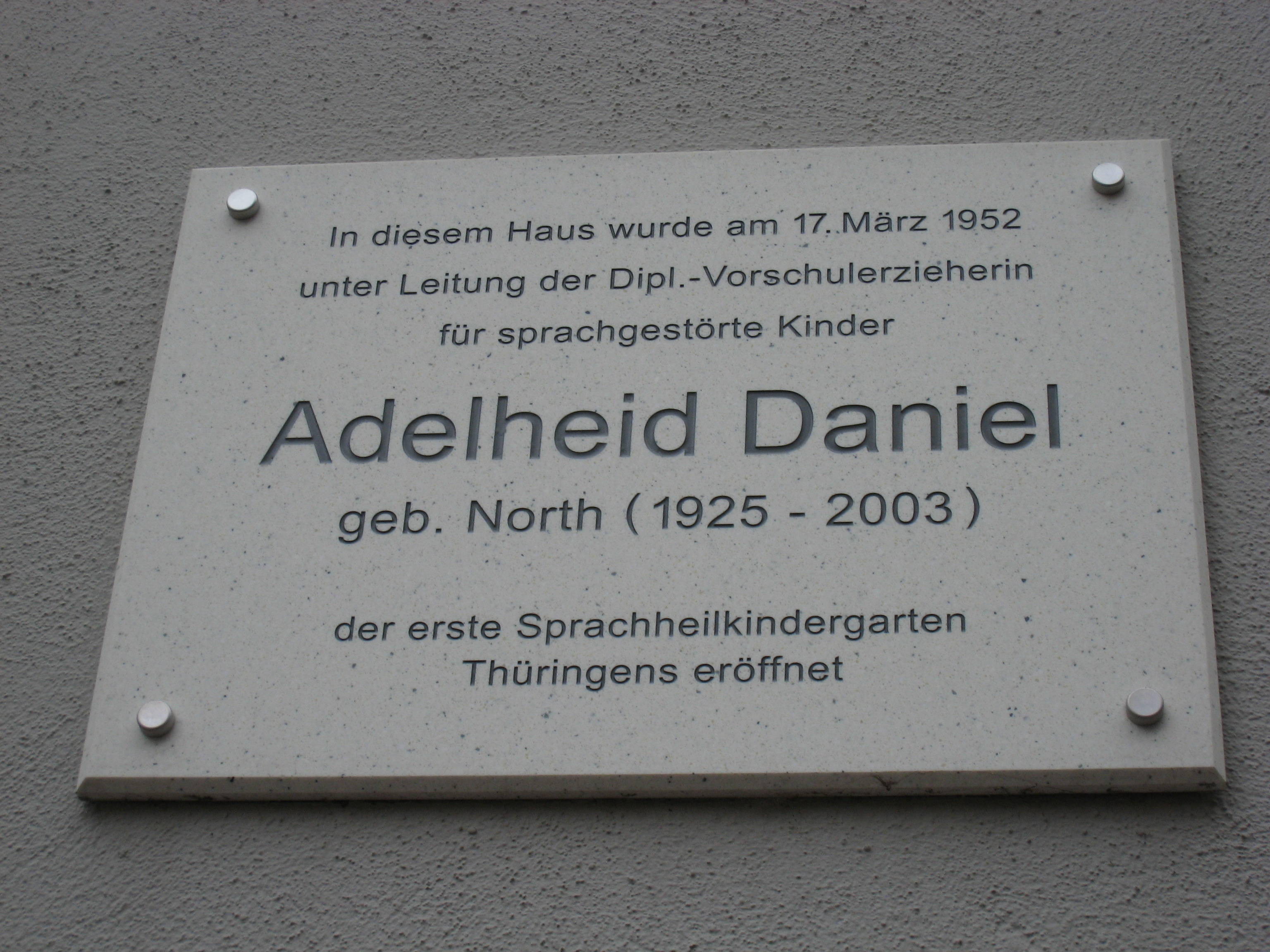 Haus zur Narrenschelle